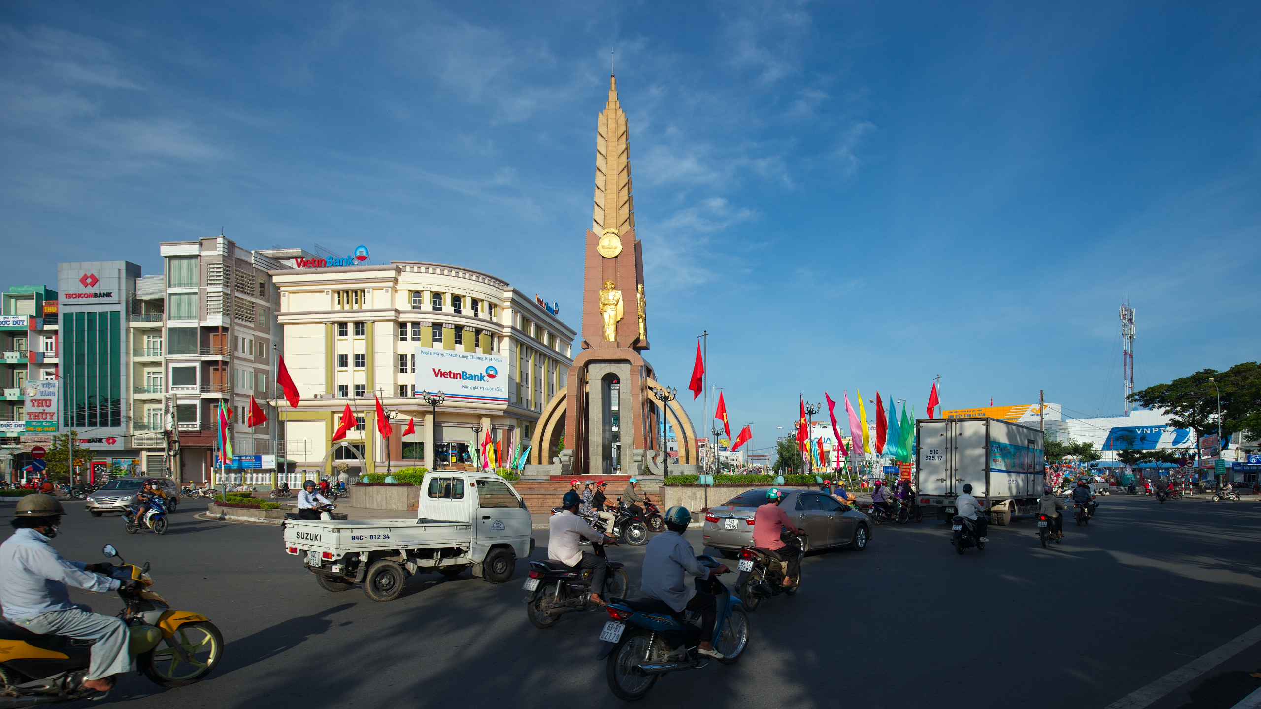 Monument at Cà Mau city center, Vietnam